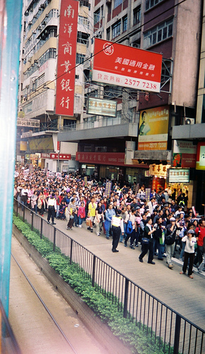 Article 23 demonstration Hong Kong